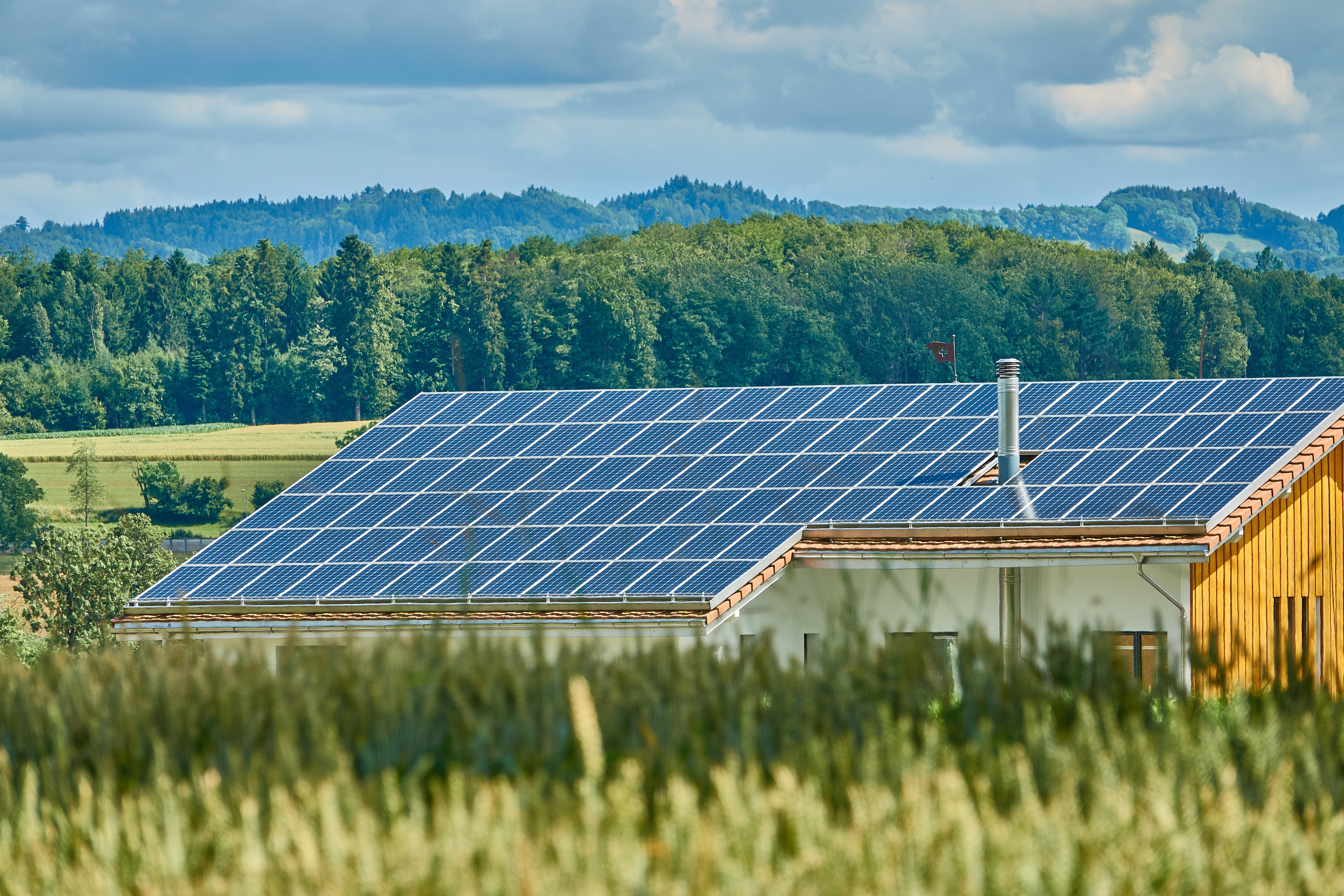 A photovoltaic roof installation filling the entire roof